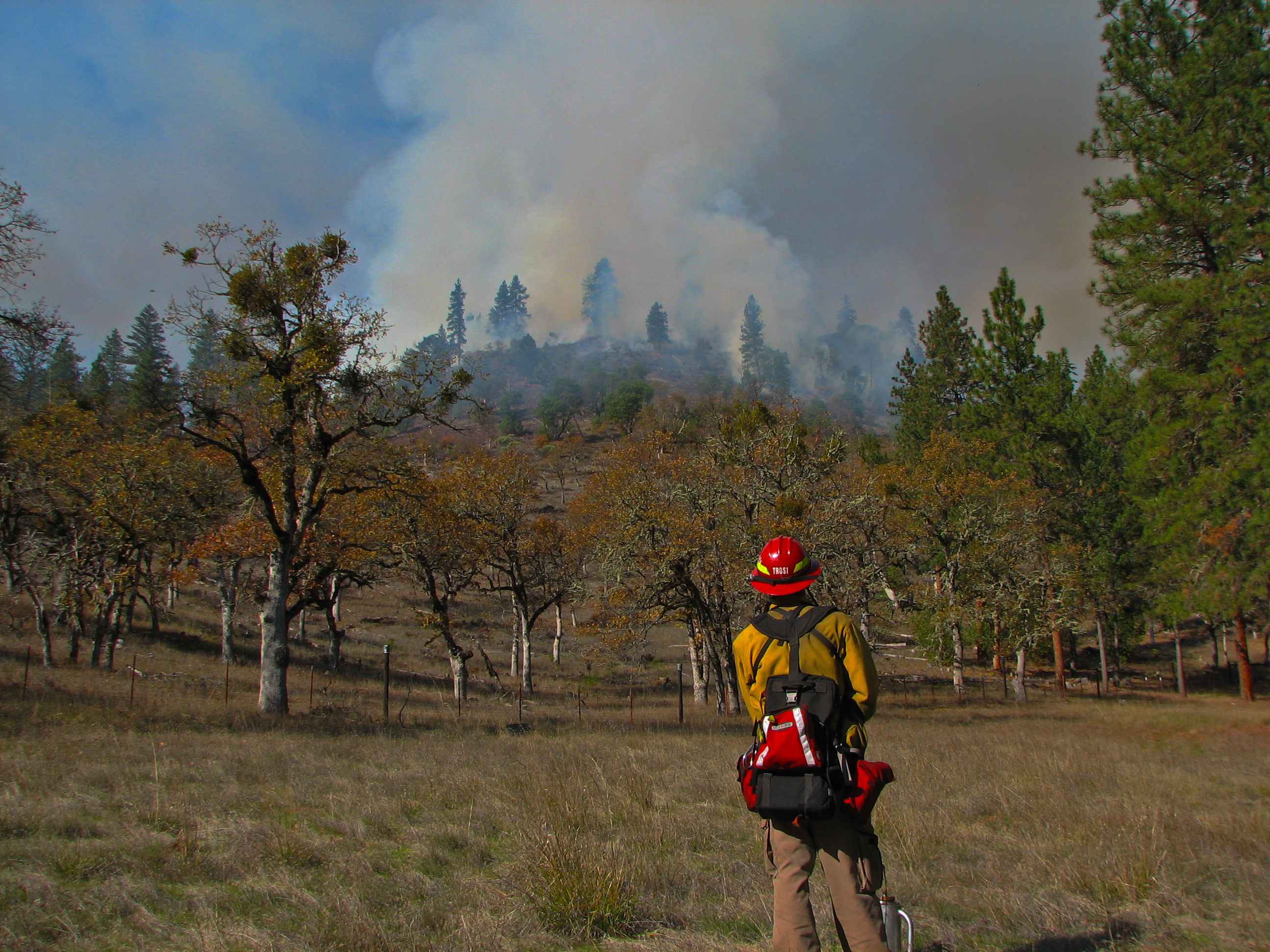 Repeated use of prescribed fire to maintain desired condition on the landscape, western Oregon.